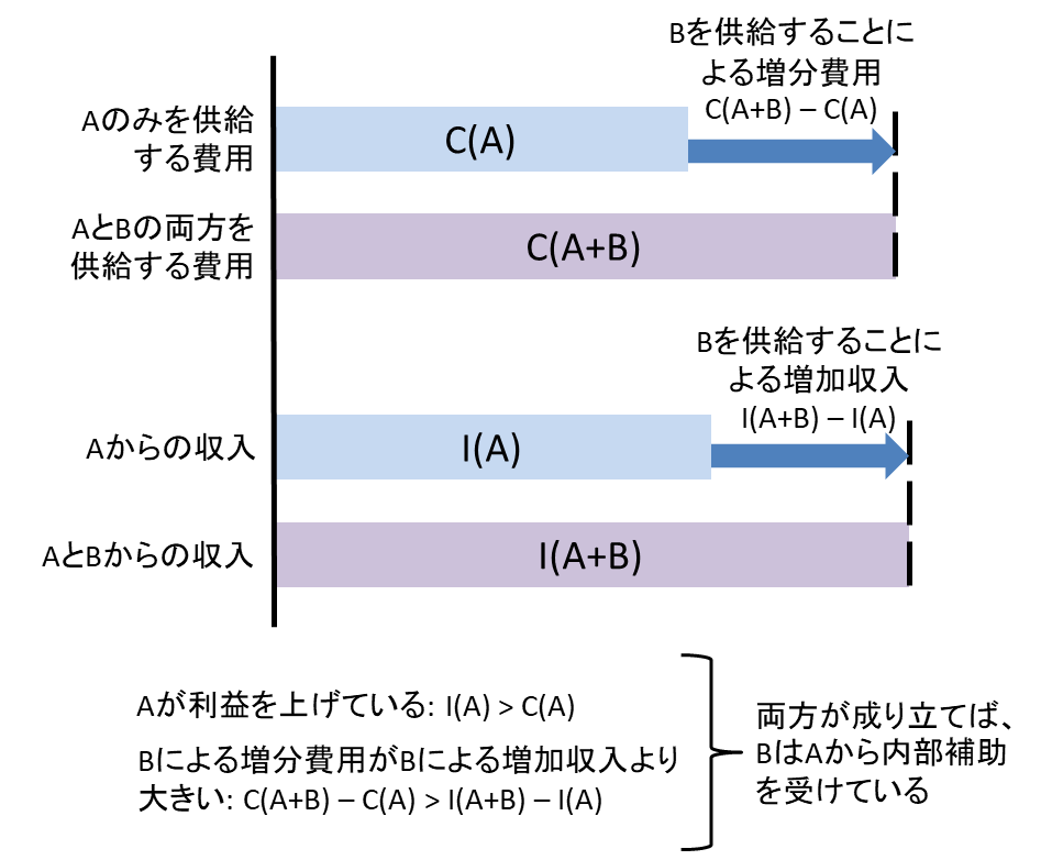 Figure describing the test which determines whether the produce/service is cross-subsidized or not.